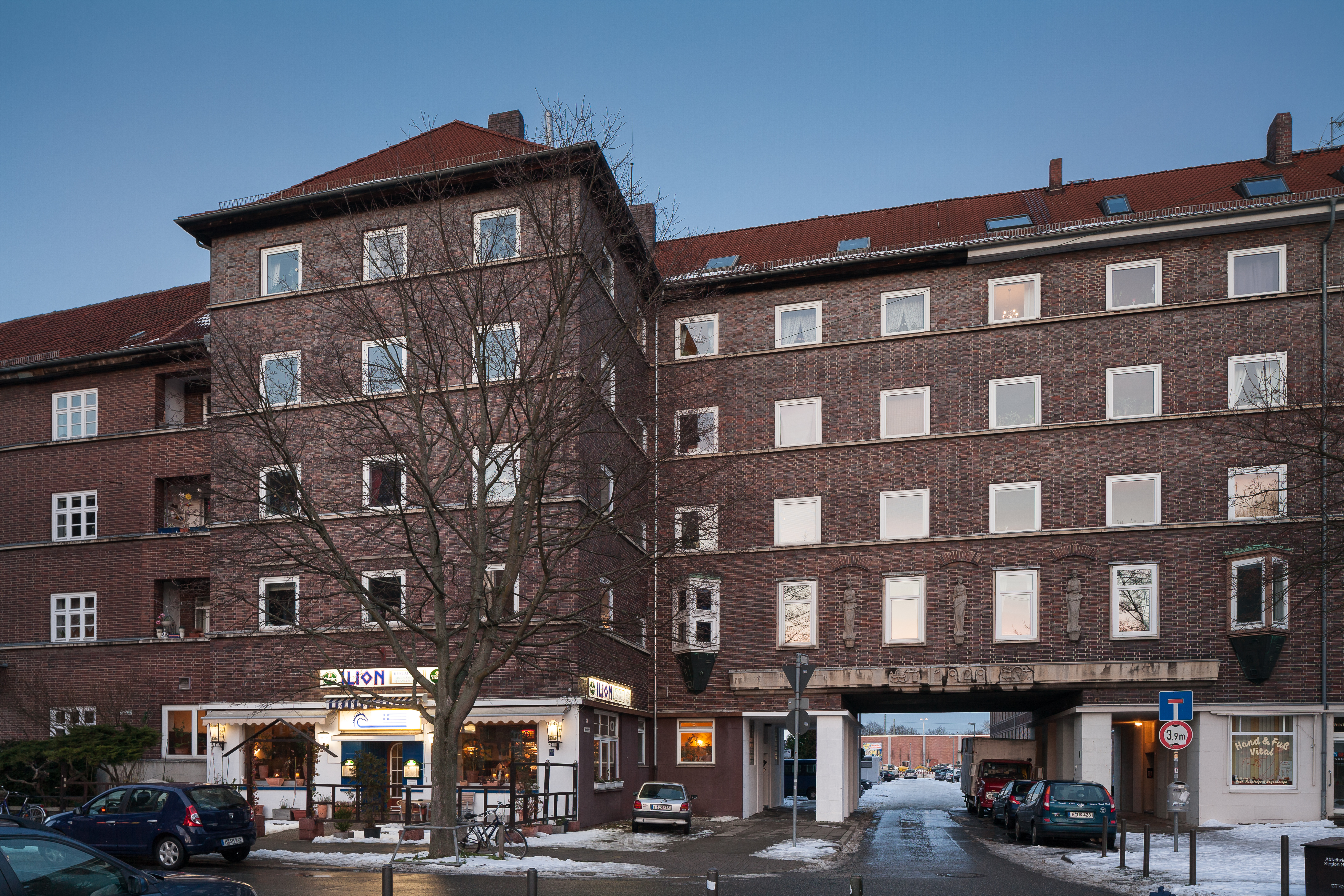 Apartment building located at Wredestrasse and Tiestestrasse in Hanover, Germany.